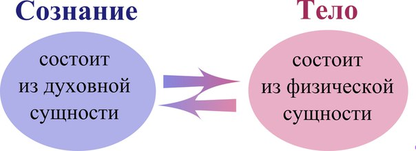 dualism